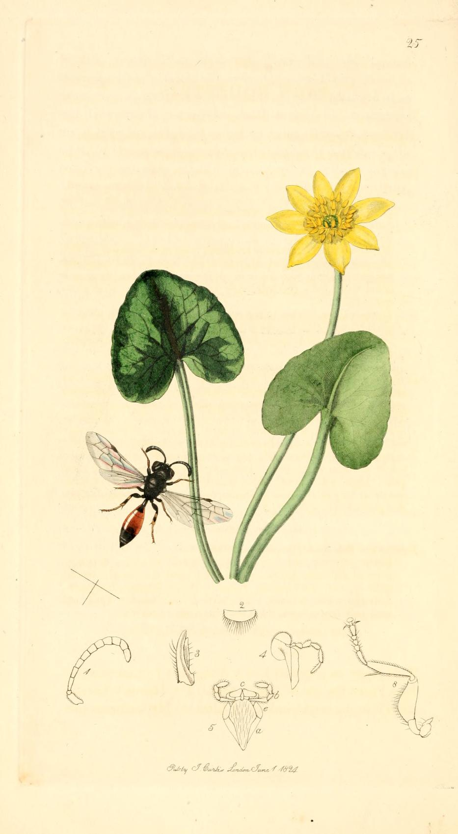 An illustration from British Entomology by John Curtis. name Hymenoptera: Psen equestris or Psen bicolor. The plant is Ranunculus ficaria (Common Pilewort)